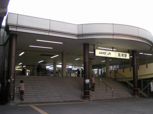 photo from japanese wiki